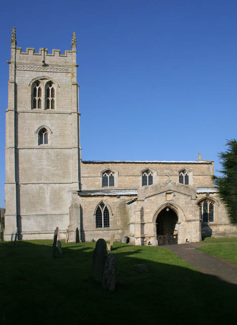 St Peter's Church, Stonesby From a very early time, Stonesby formed an ancient parish within the Framland hundred in north-east Leicestershire, roughly corresponding to today's borough of Melton. It was recorded in the Domesday Book as one of Leicestershire's four wapentakes. An ancient parish was a village or group of villages or hamlets and the adjacent lands. Originally they held ecclesiastical functions, but from the sixteenth century onwards they also acquired civil roles. The name is still in use for a deanery of the Diocese of Leicester in the Church of England.